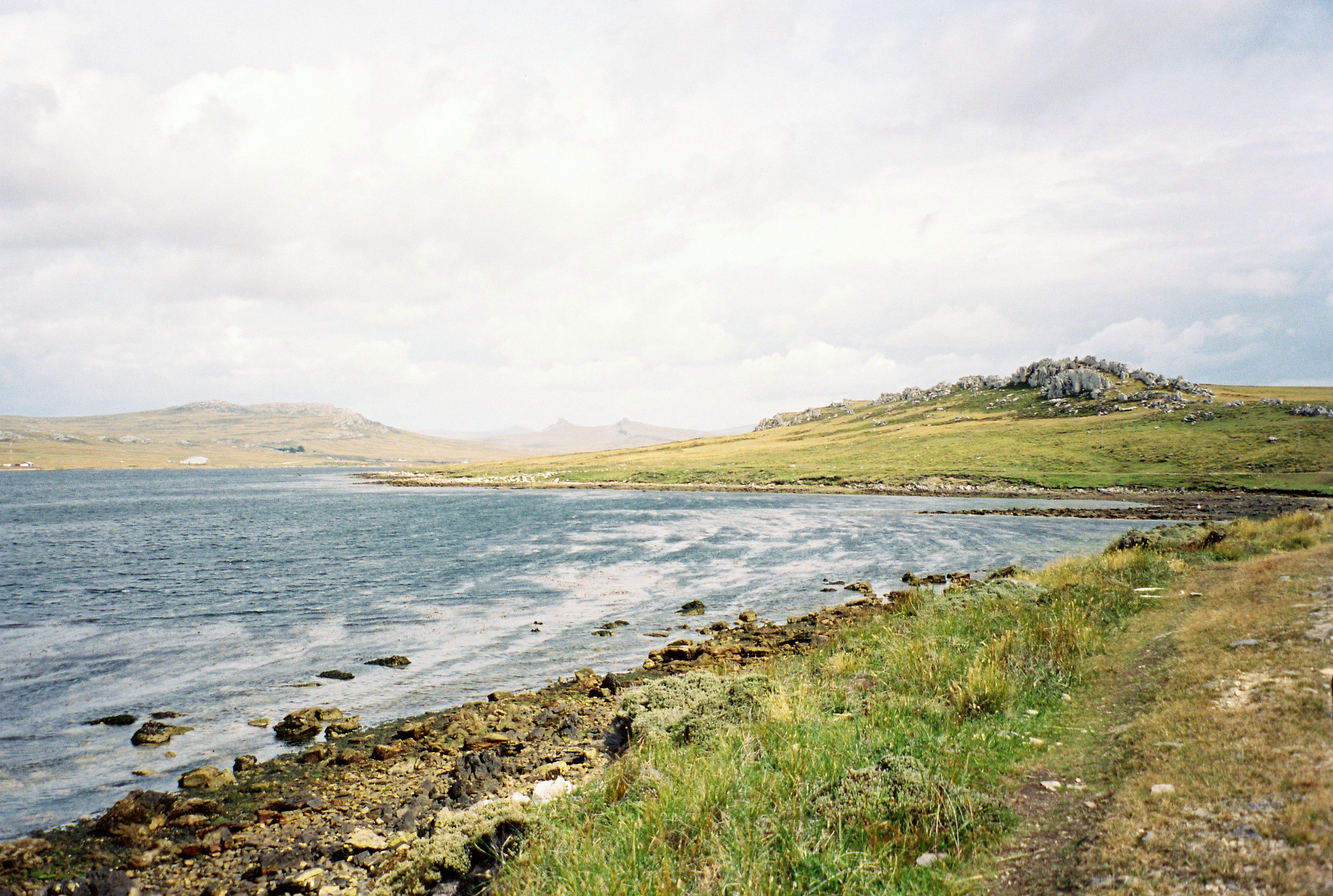 Mount Tumbledown, Two Sisters, and Wireless Ridge from Stanley Harbour, Falkland Islands